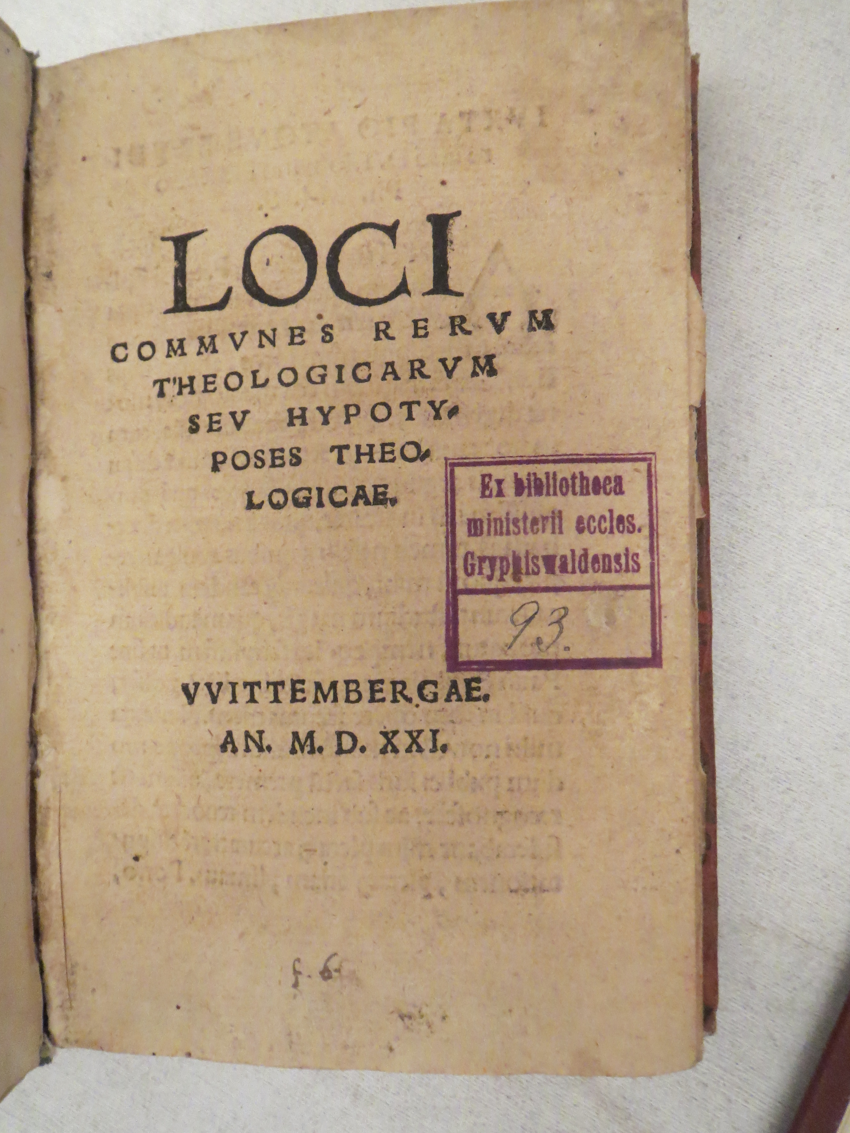 Ministerial Library Greifswald